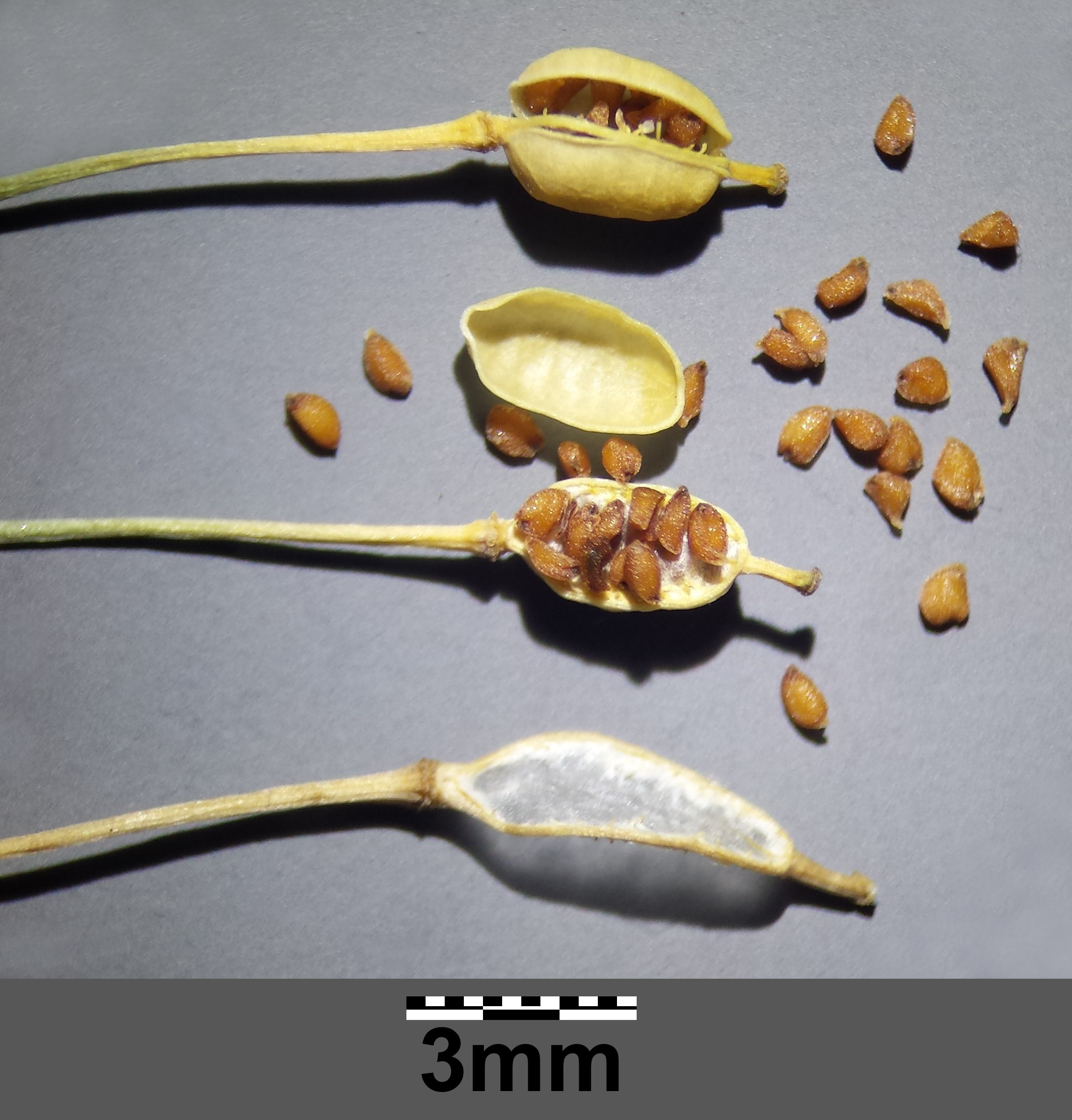 Siliques and seeds Taxonym: Rorippa amphibia ss Fischer et al. EfÖLS 2008 ISBN 978-3-85474-187-9 Location: Neue Donau, Vienna-Floridsdorf - ca. 160 m a.s.l. (leg. 2015-06-26) Habitat: water's edge